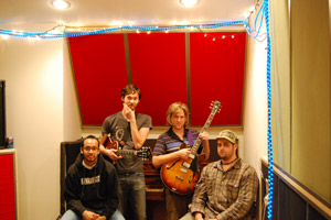 Saves The Day line-up from 2007.